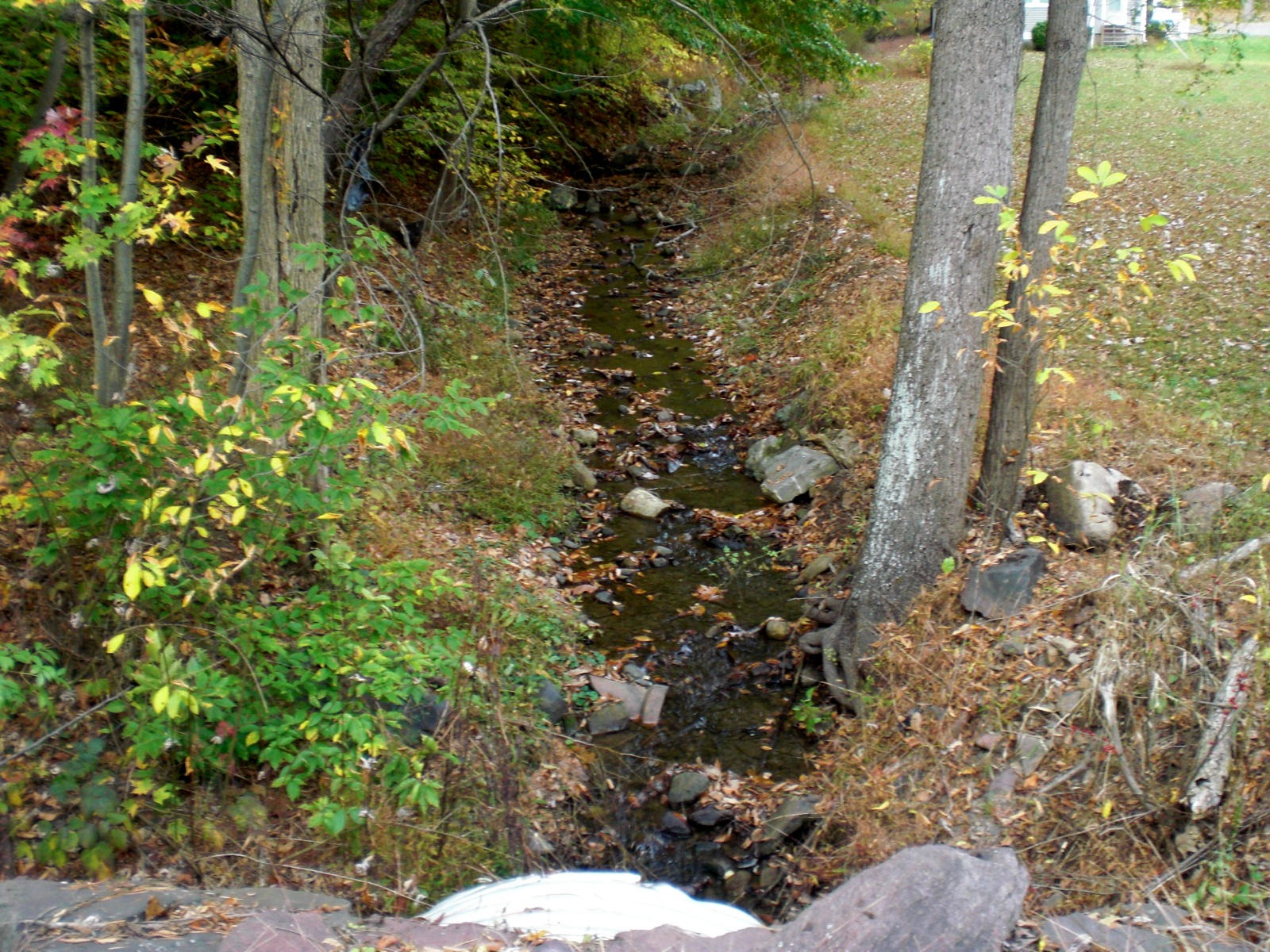 Kinney Run looking upstream not far from its source.